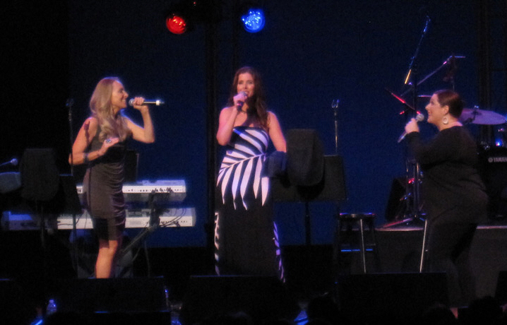 Wilson Phillips at Cerritos Arts Center, 19 August 2011